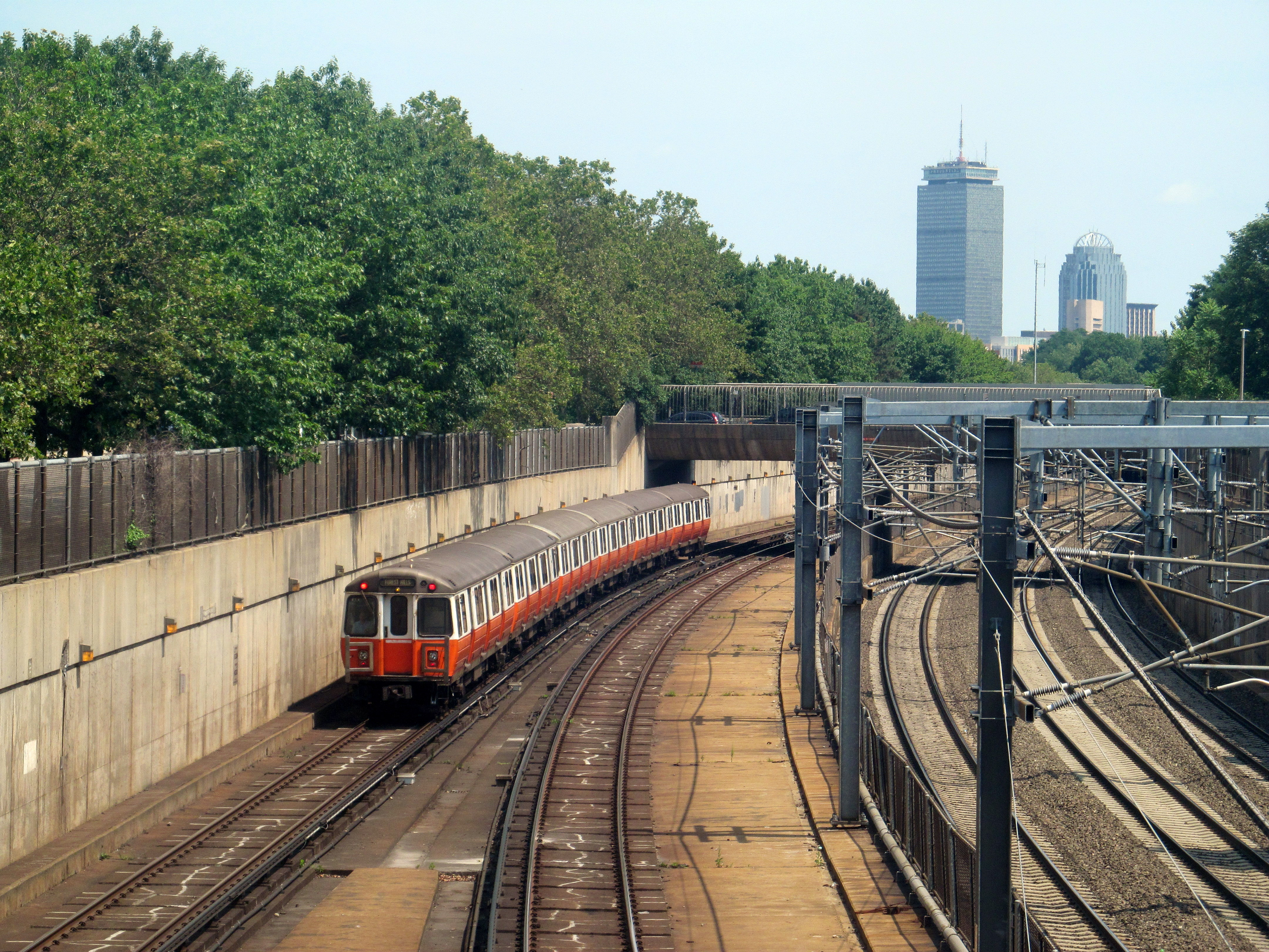 A southbound Orange Line train approaching Stony Brook station in July 2016